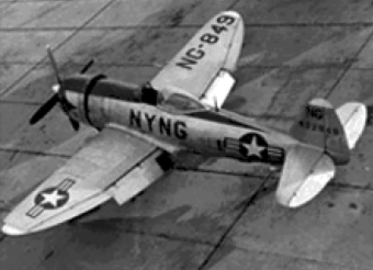 A U.S. Air Force Republic F-47D-30-RA Thunderbolt (s/n 44-33849) from the 136th Fighter Squadron, 107th Fighter Group, New York Air National Guard. The 136th FS flew the F-47D from 1948 to 1952.